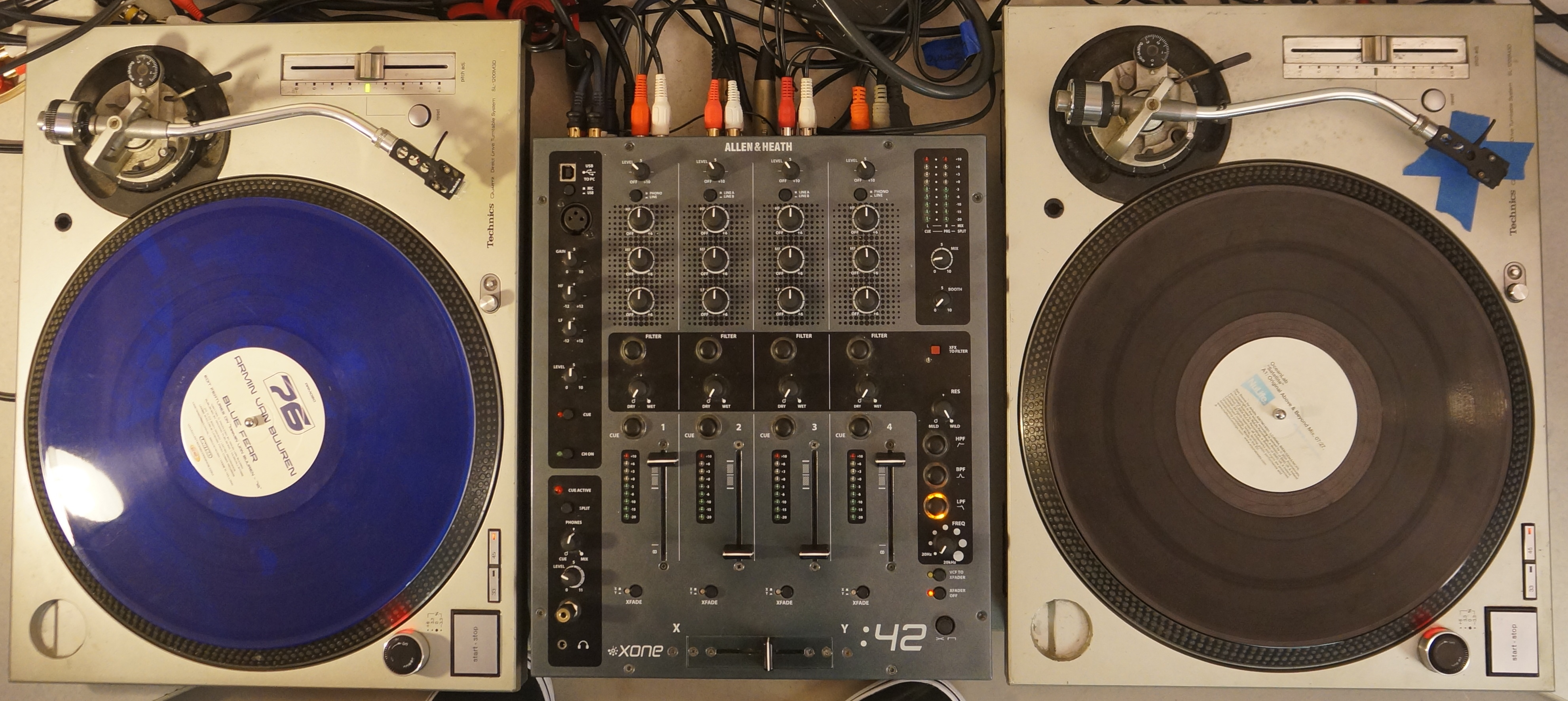 Technics 1200 and Xone 42